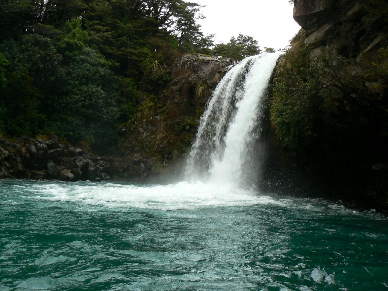 This is the waterfall and plunge pool that was used to film Gollum's fish-catching scene in the second LotR film.